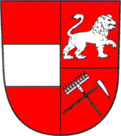 Municipal coat of arms of Horní Blatná town, Karlovy Vary District, Czech Republic.